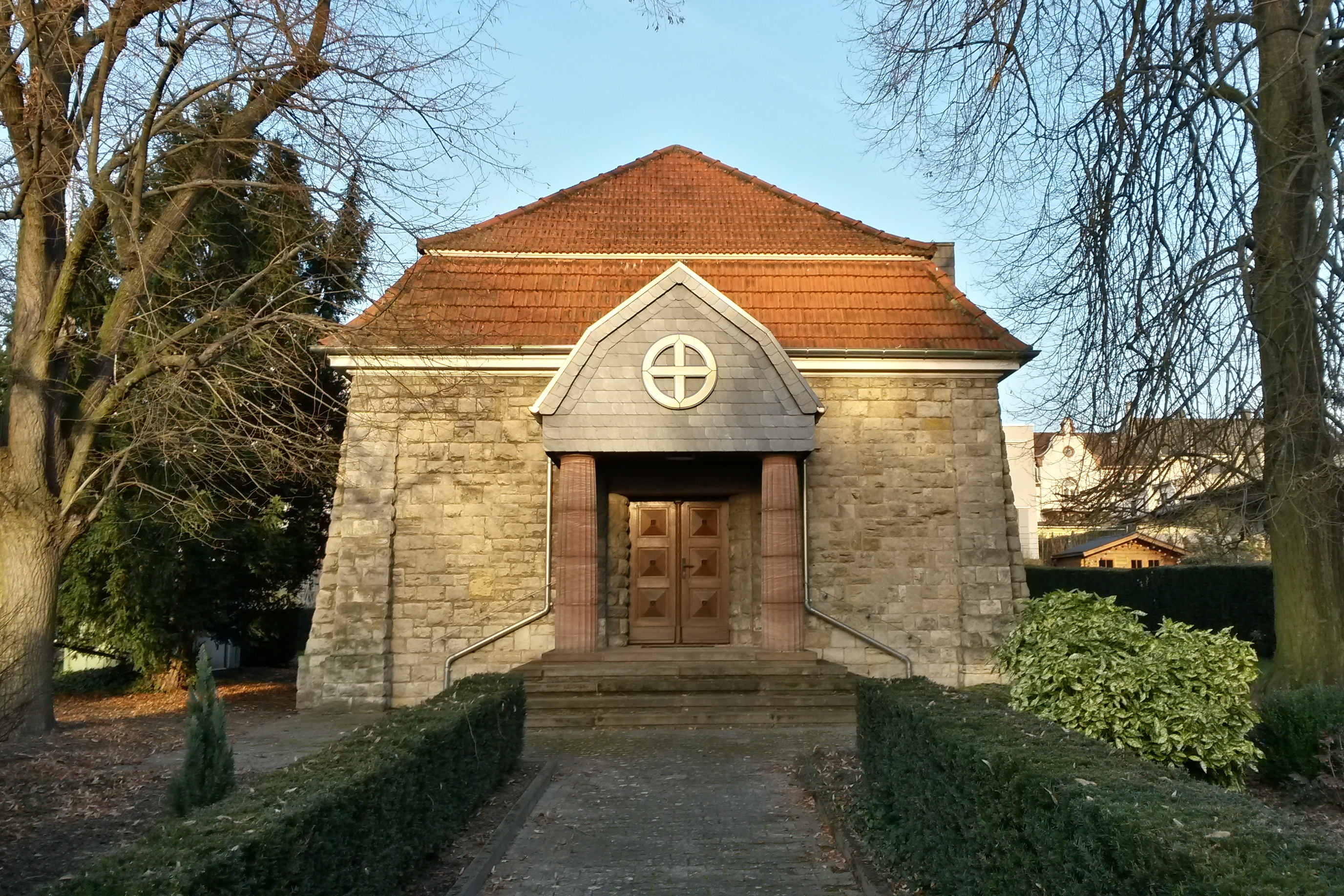 Free Religious Ordination Hall in Ober-Ingelheim, Mühlstraße 41, built for the German Catholic community, art nouveau building with porch, 1910, architect Otto Schmidt, Wiesbaden